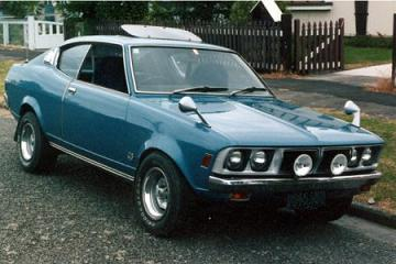 1973 Mitsubishi Colt Galant GTO